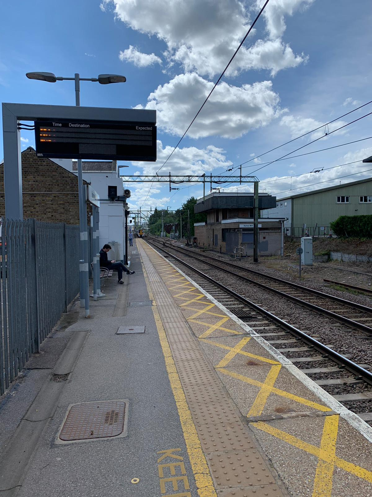 Photo of Harlow Mill train station (towards London).